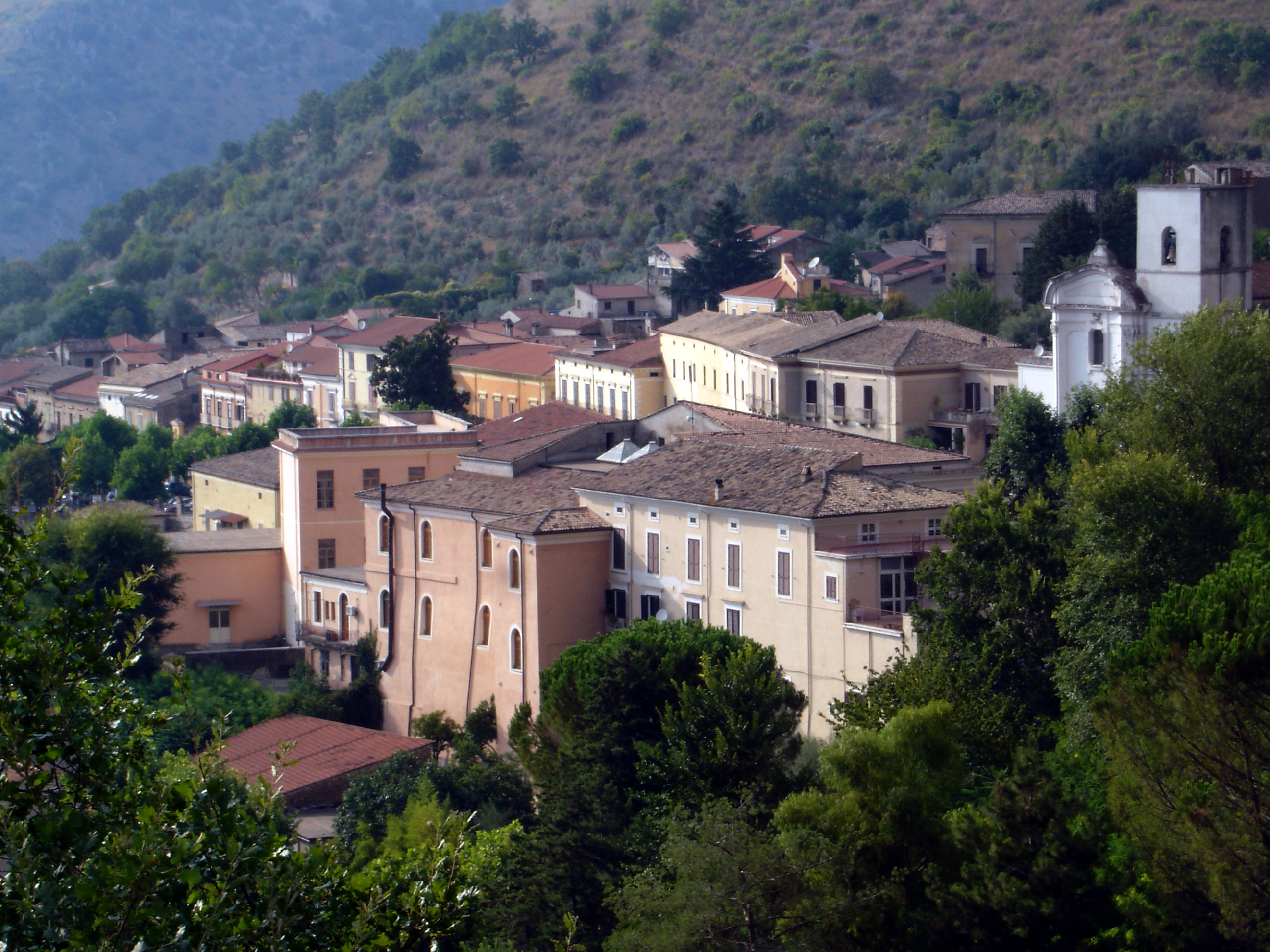 Boncompagni palace in Roccasecca